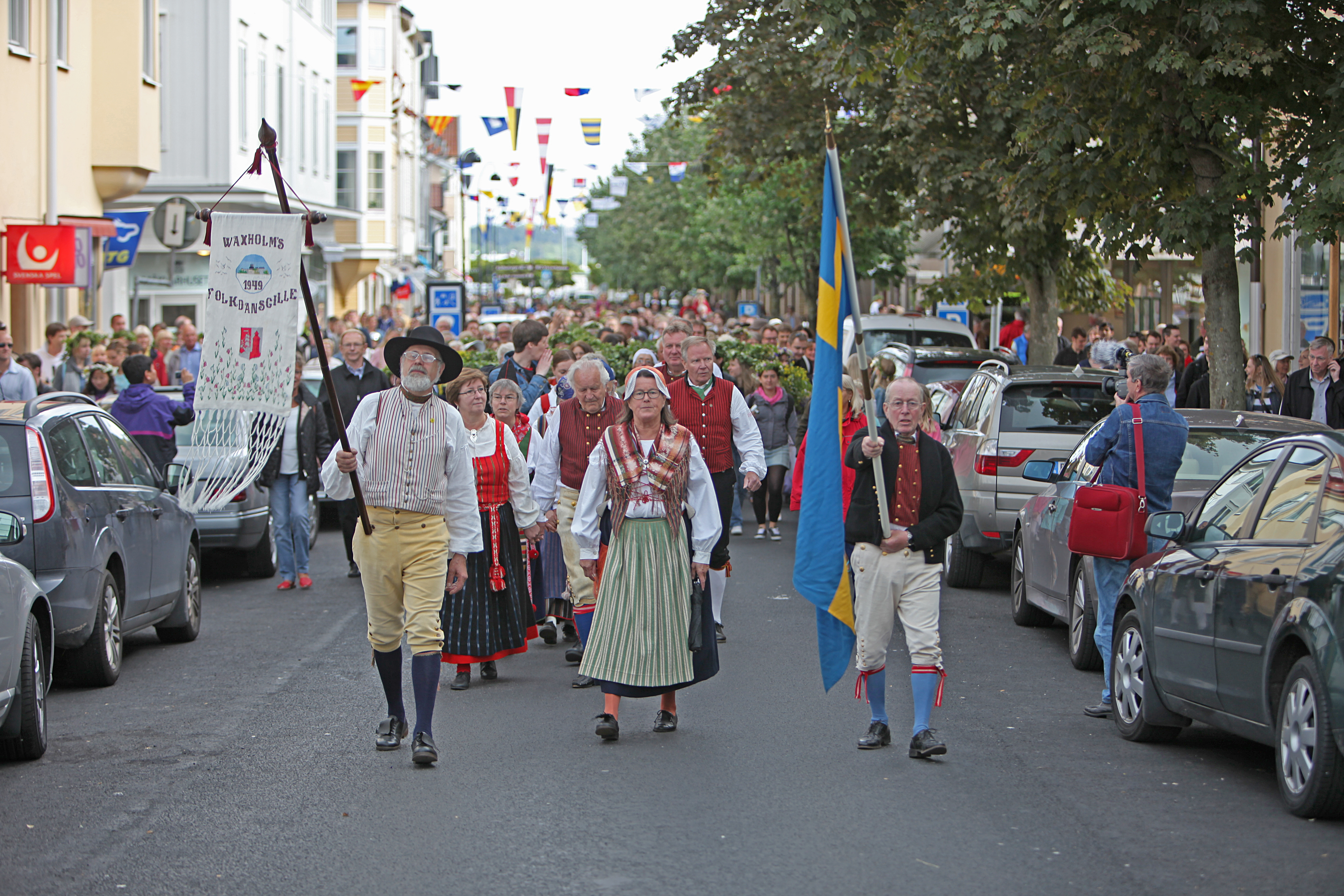 Midsummer carnival, Vaxholm, Sweden 2009